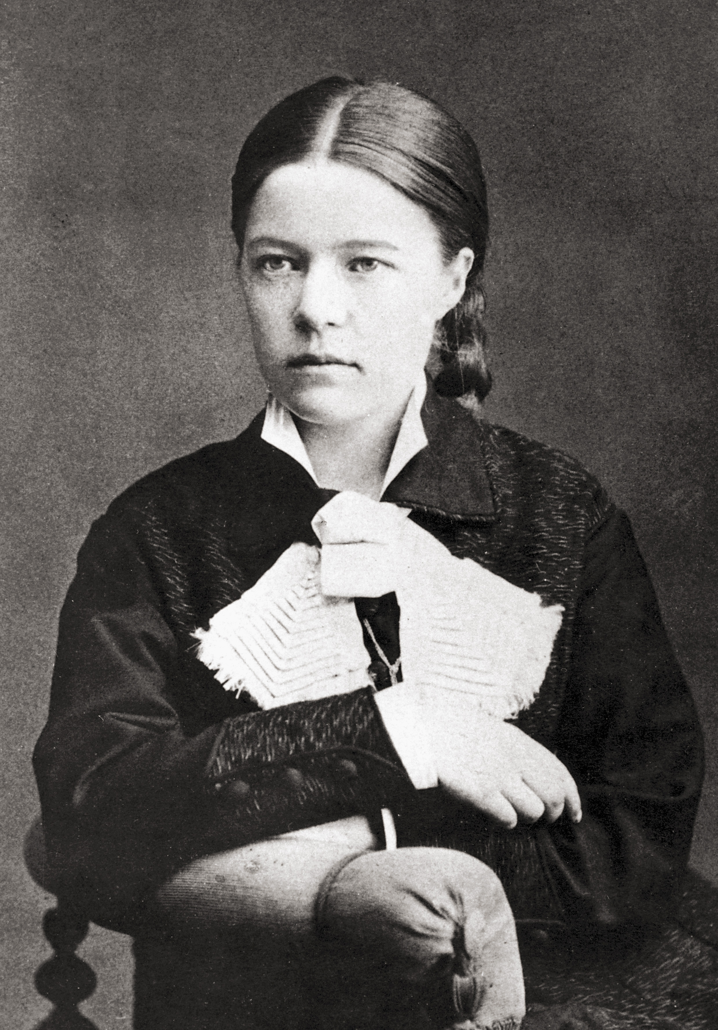 Photograph of writer Selma Lagerlöf. Taken in 1881.